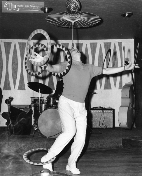 Seppo Leivo was a balance between an artist, a juggler and a teacher.